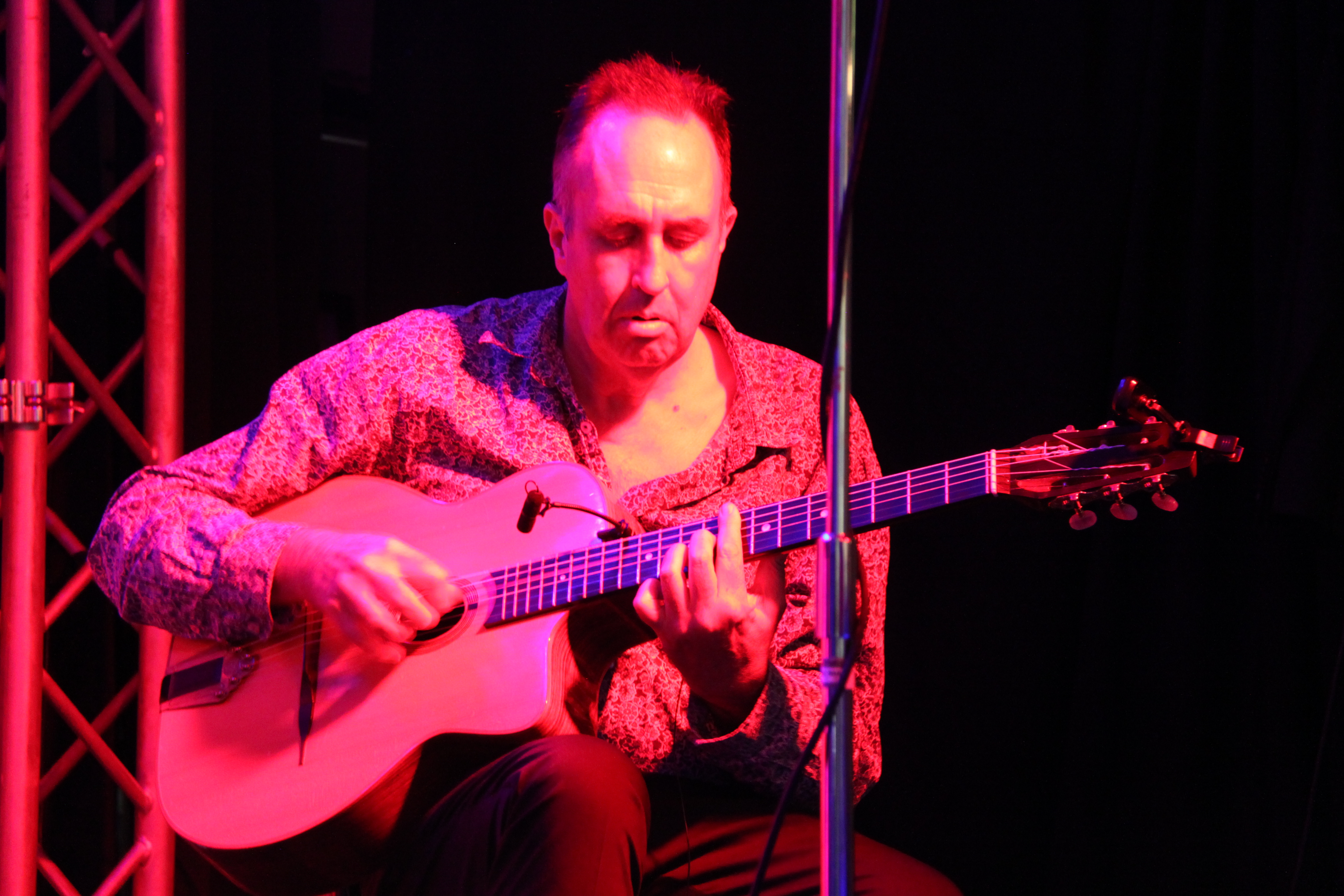 Ian Date (jazz musician) performing at the Lismore Jazz Club, Australia, November 2017 (Tony Rees photograph)